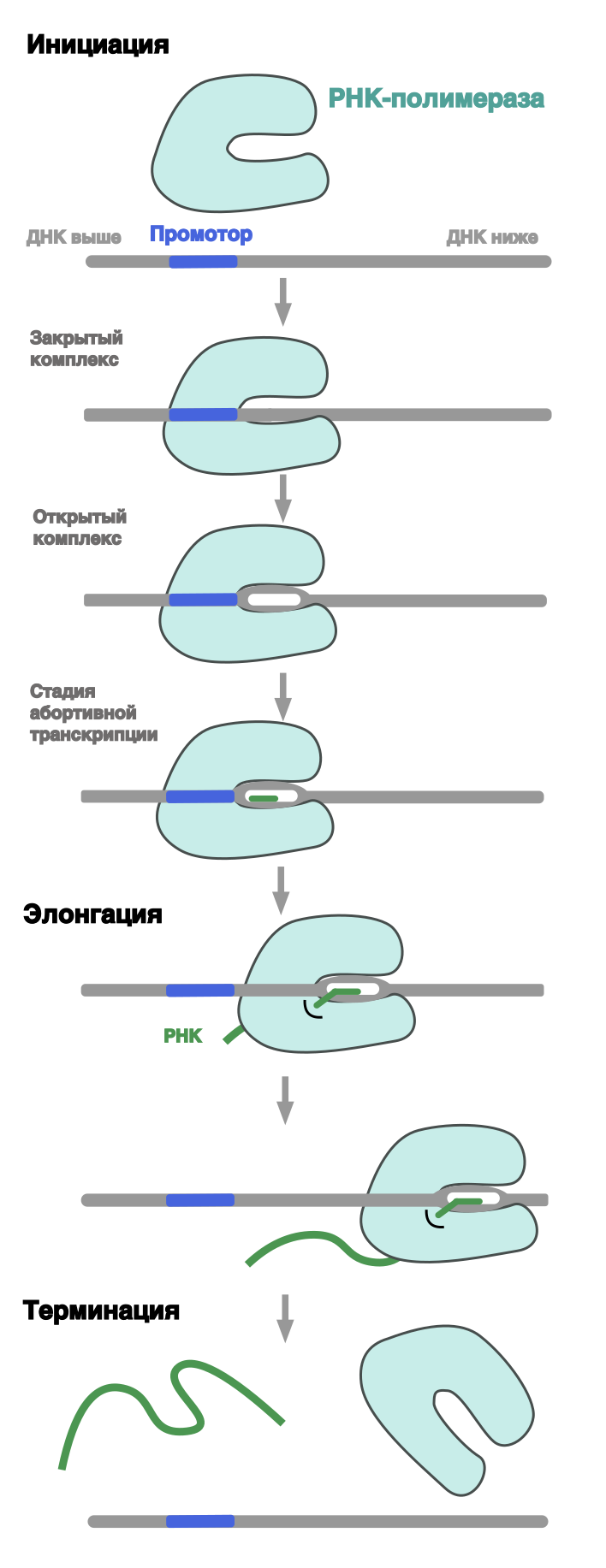 Transcription scheme.